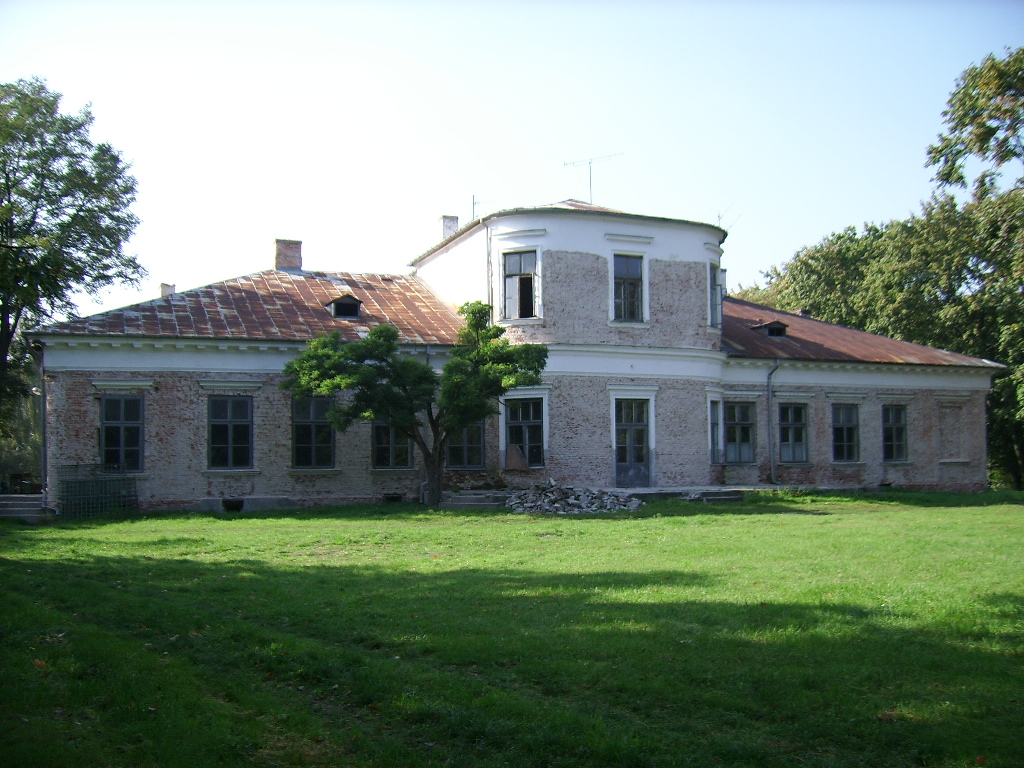 Palace in Żelechów, Poland